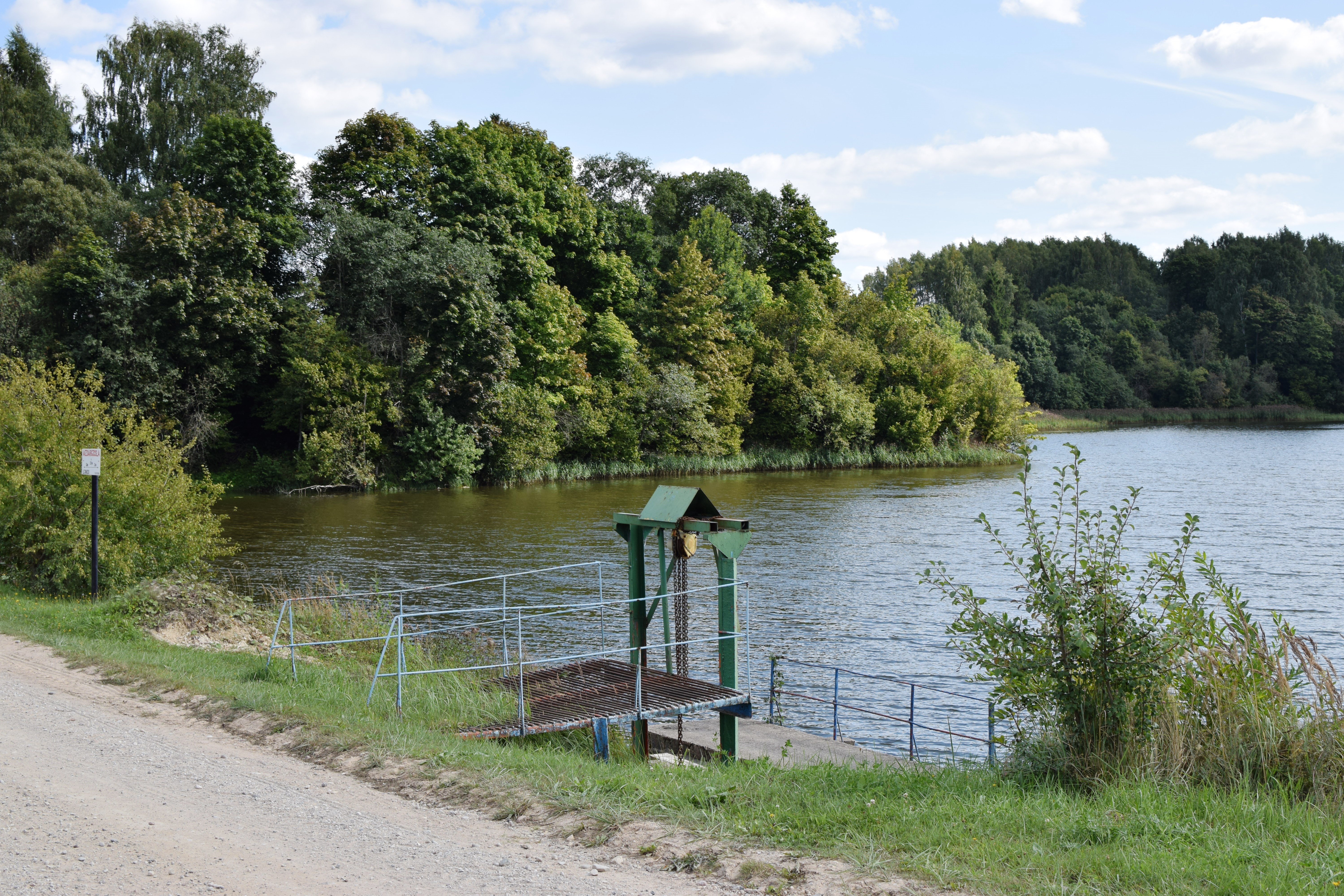 Saldus Municipality